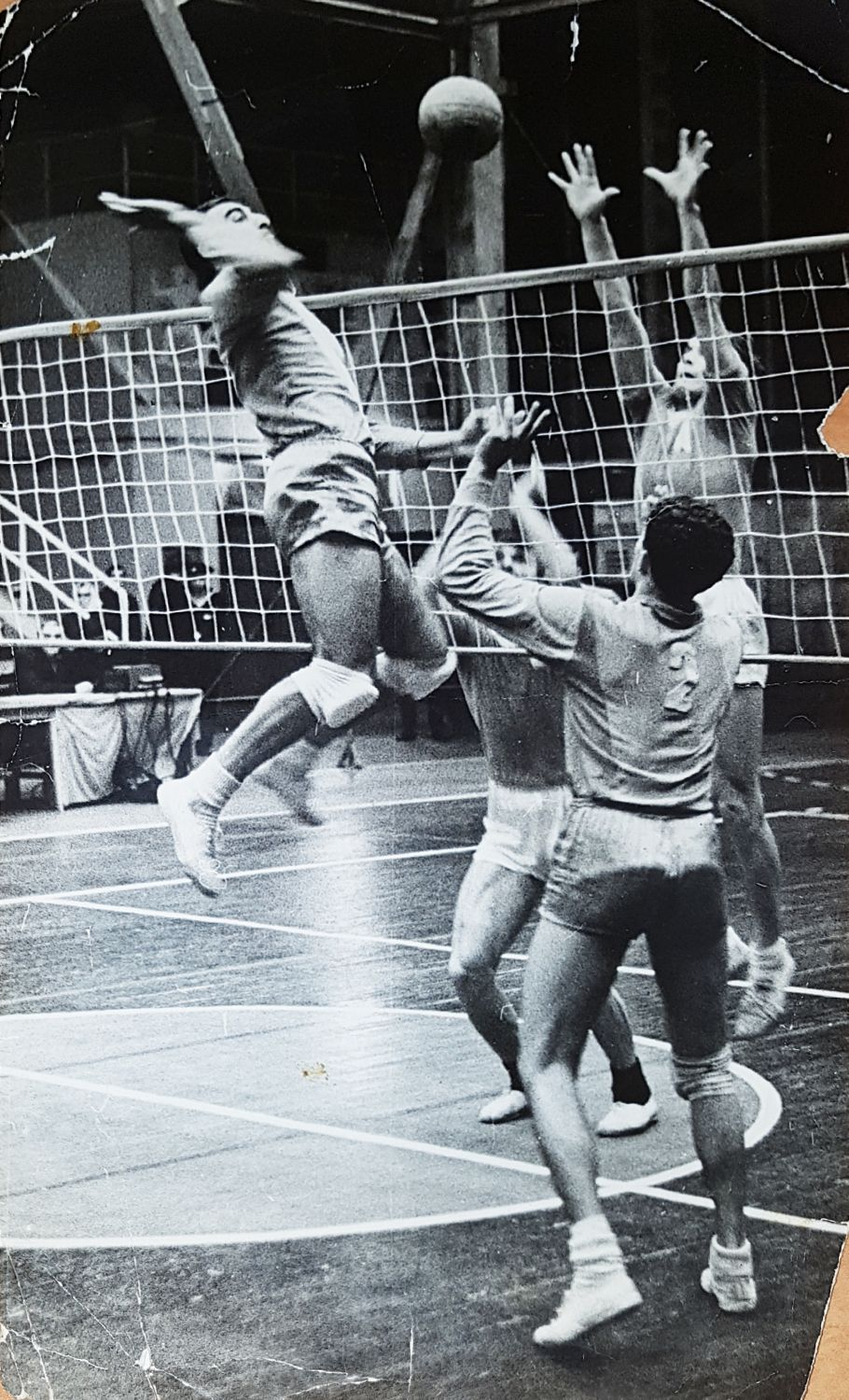 Yefim Chulak in strike position in the 70s